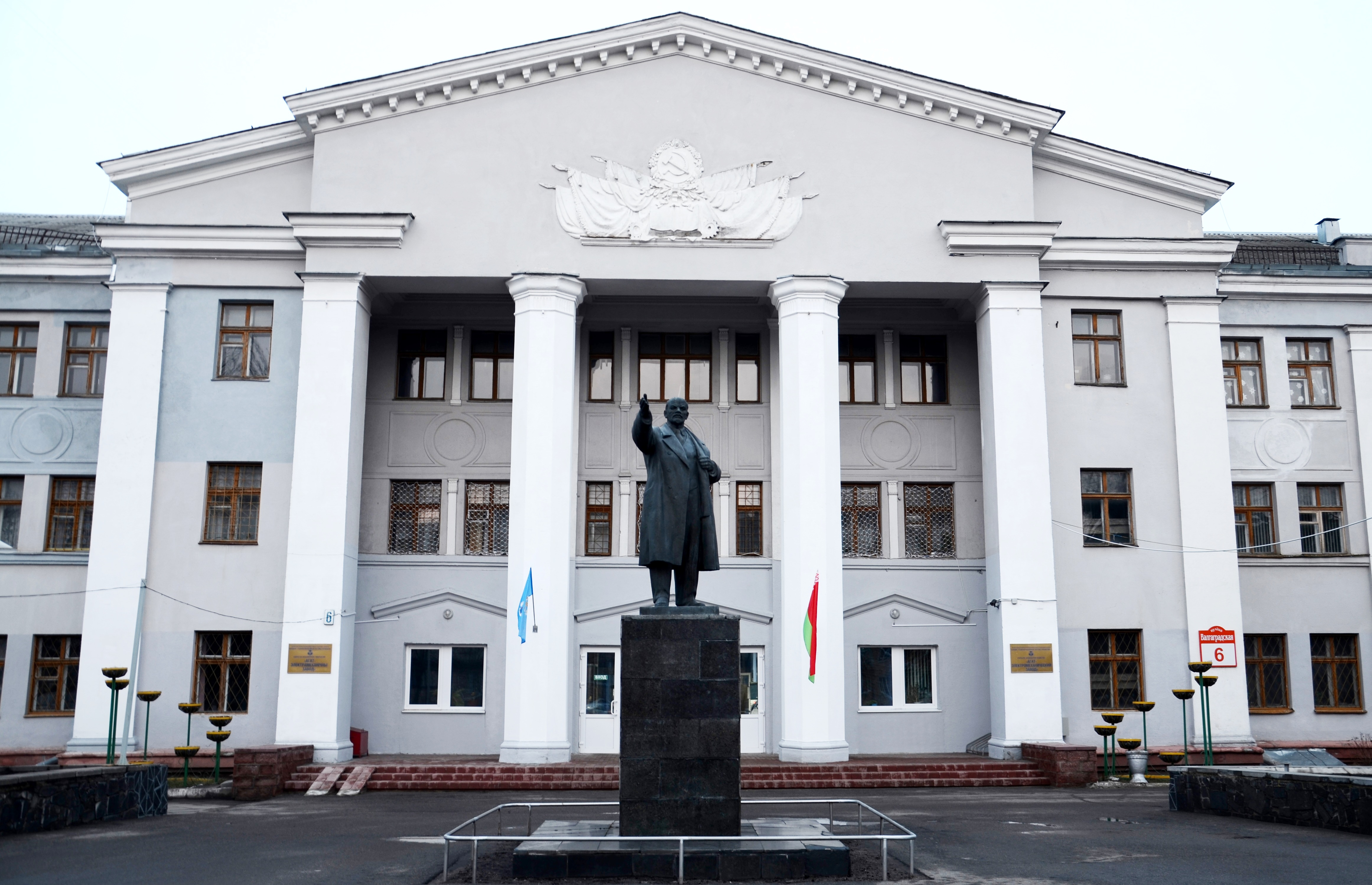 Monument of Lenin on Volgogradskaya-street,6 in Minsk